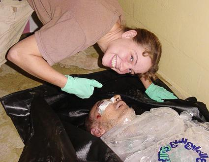 11:35 p.m., Nov. 4, 2003. Detainee died during an interrogation by OGA, and was placed in the shower area of tier 1, hard site. The body bag was opened so CPL GRANER and SPC HARMON could take pictures of the detainee. No NDRS or ISN numbers, as he was never processed in the system. All caption information is taken directly from CID materials. U.S. Army / Criminal Investigation Command (CID). Seized by the U.S. Government. Note: Abu Ghraib. Sabrina Harman posing over the body of Manadel al-Jamadi. Manadel Jamadi was an Iraqi prisoner who was tortured to death in United States custody during interrogation at Abu Ghraib prison in November 2003. His name became known in 2004 when the Abu Ghraib scandal made news— his corpse packed in ice was the background for widely-reprinted pictures of grinning United States Army Specialists Sabrina Harman and Charles Graner each offering a "thumbs-up" gesture.